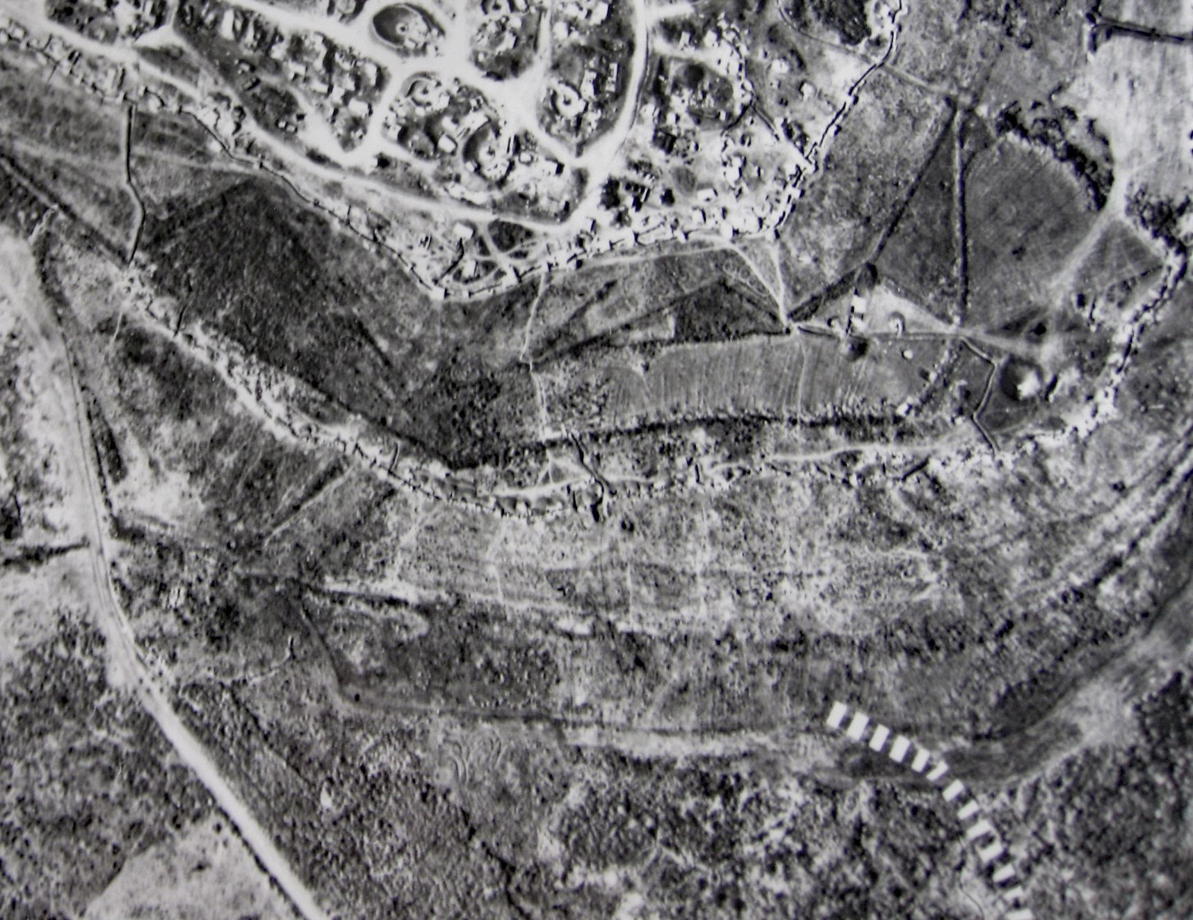 I Corps: An Aerial Retrospective by COL Thomas F. Pike